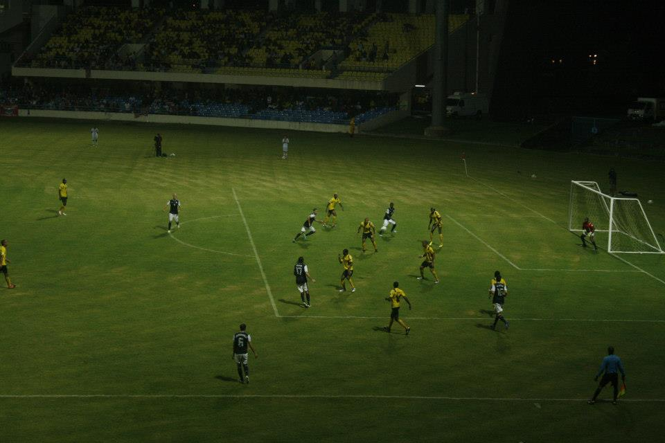 This is a photo of the Antigua and Barbuda national football team against the United States national soccer team.